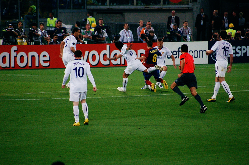 Andrés Iniesta is challenged by Carlos Tévez and Nemanja Vidić on the edge of the Manchester United penalty area during the 2009 UEFA Champions League Final